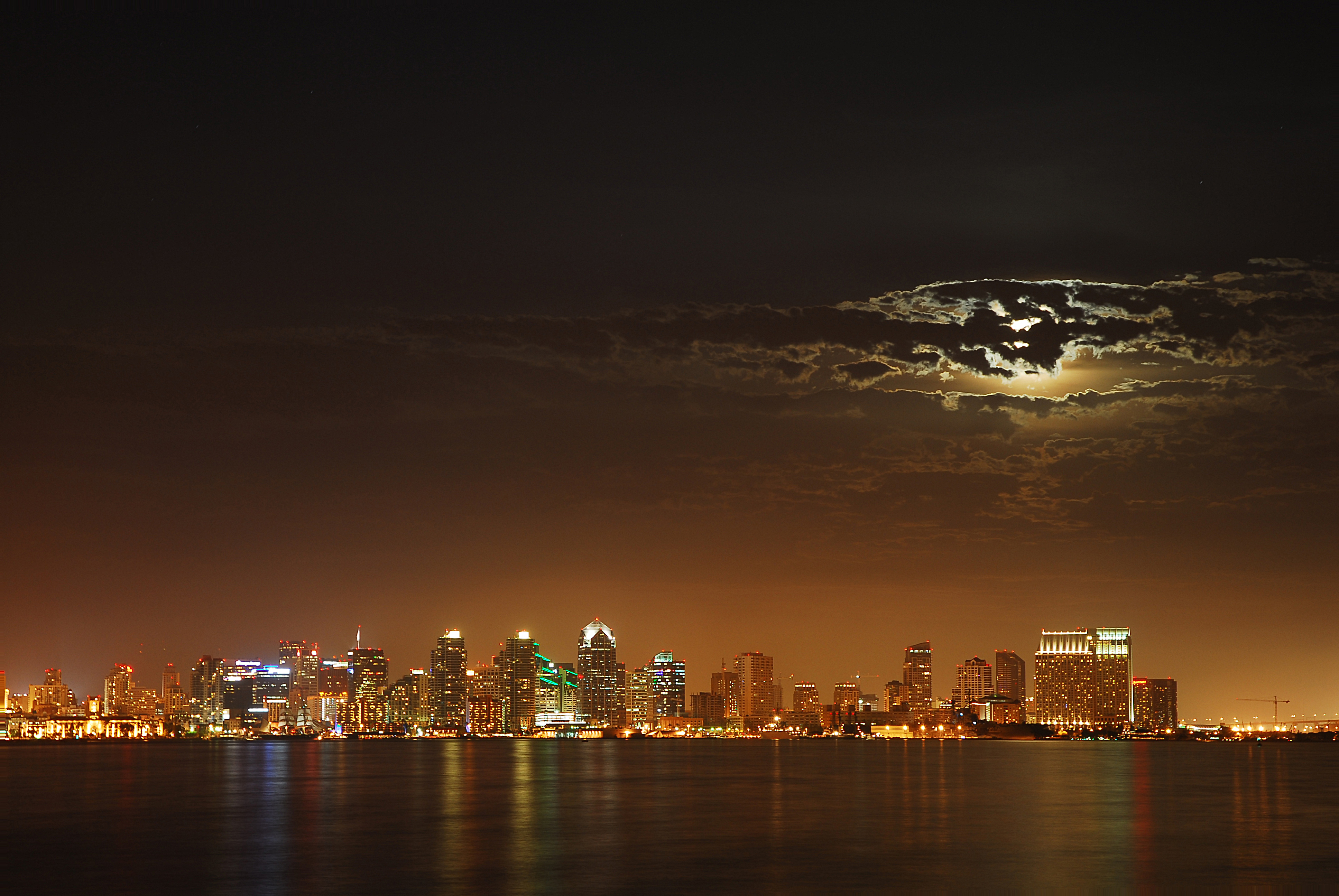 Moon over San Diego.